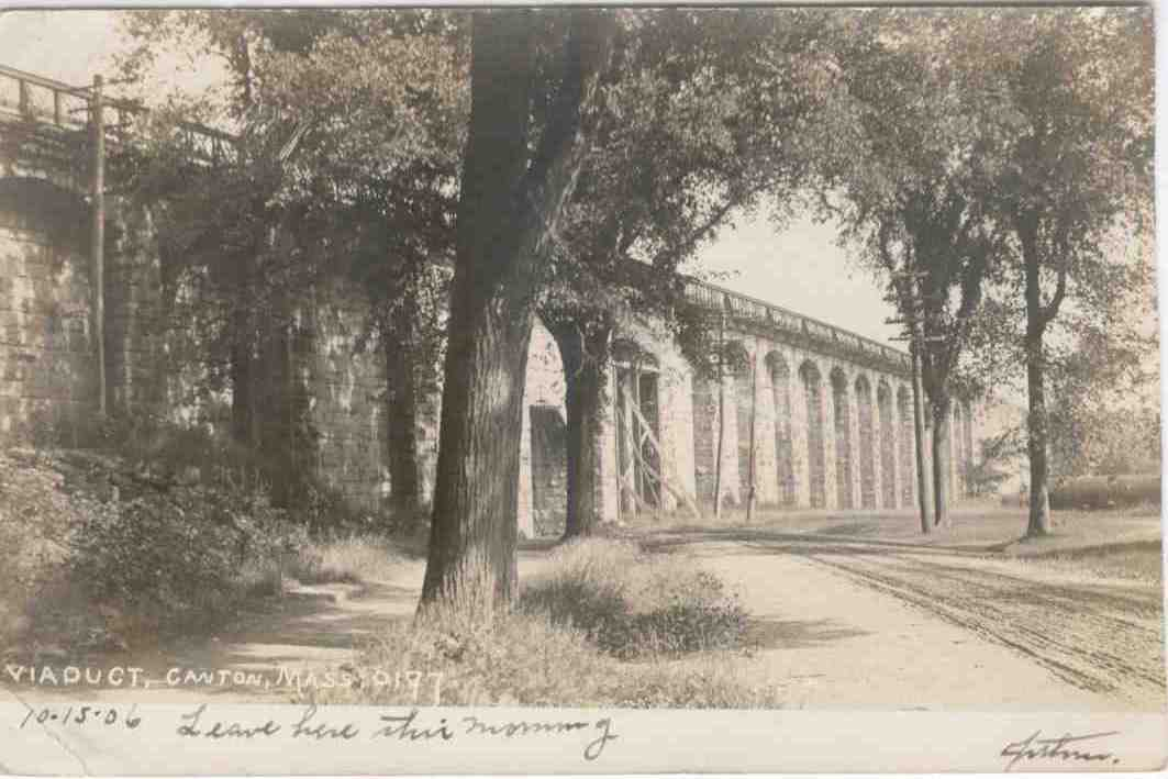 Canton Viaduct Repair